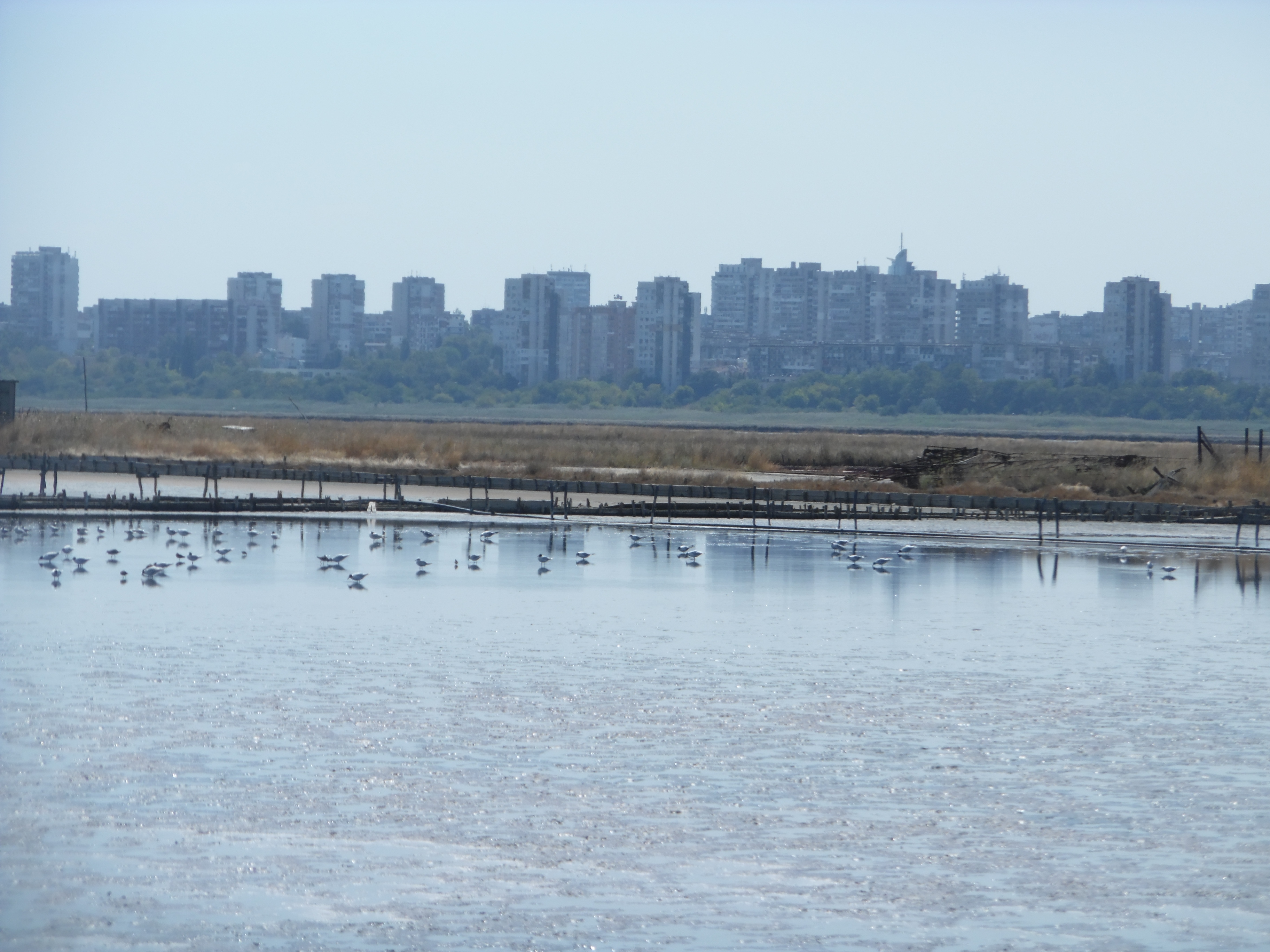 Atanasovsko Lake